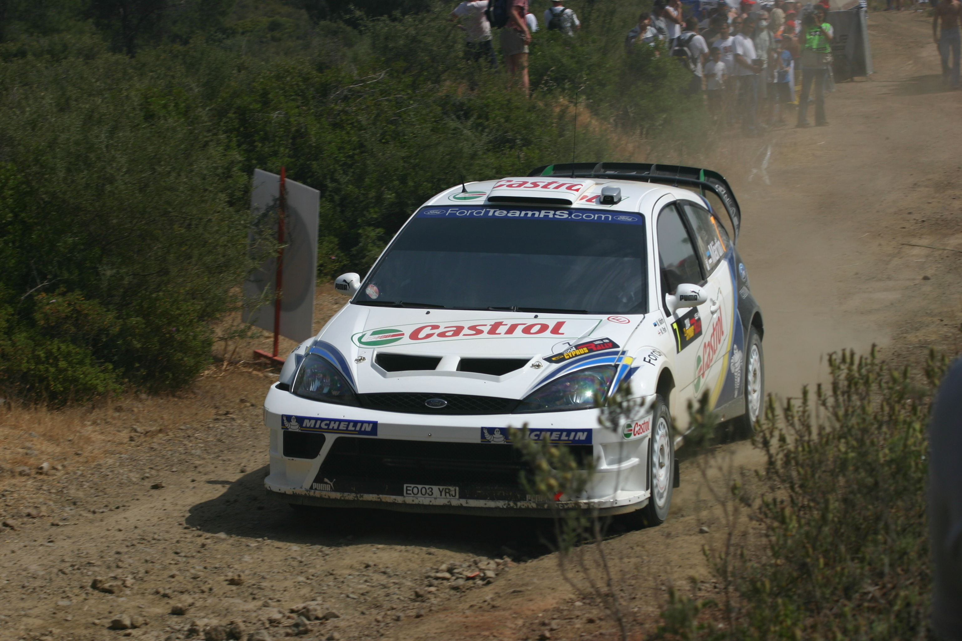 Markko Märtin driving a Ford Focus RS WRC at the 2004 Cyprus Rally.